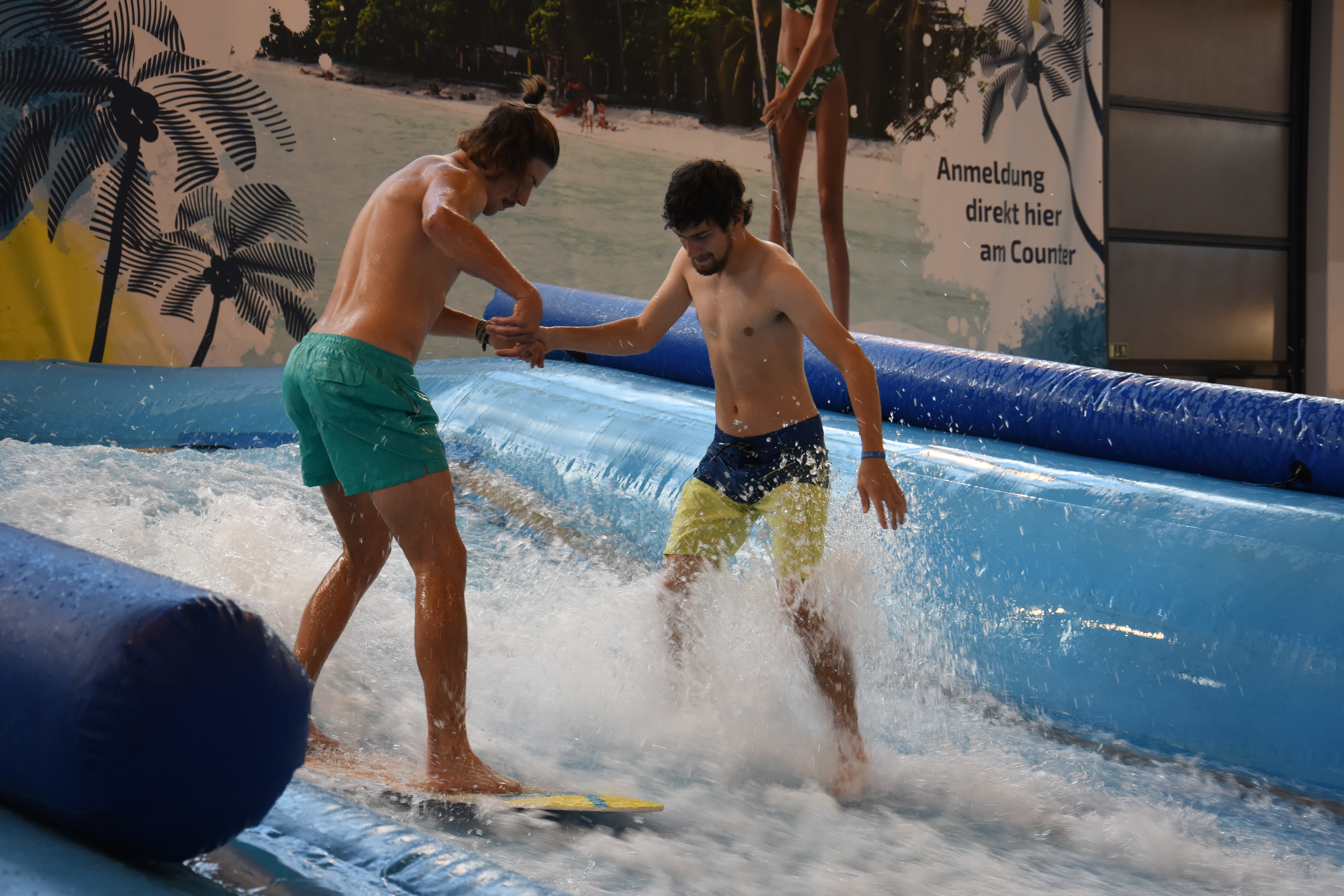 Wave surfing demonstration for visitors at Interboot